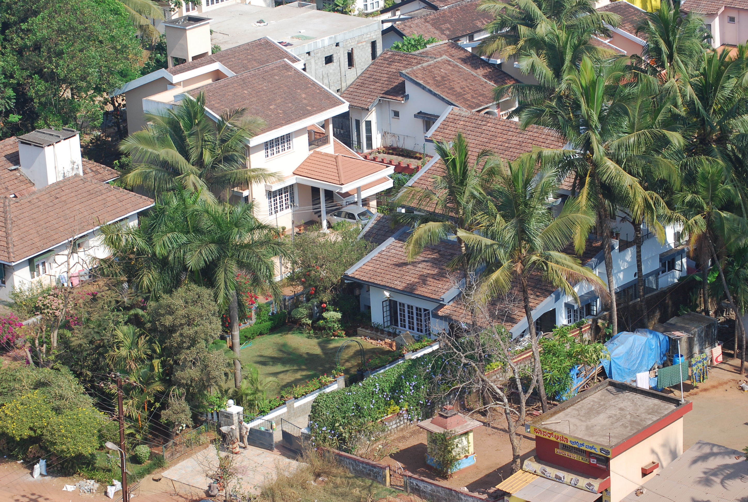 Houses with tiled roof in Mangalore.